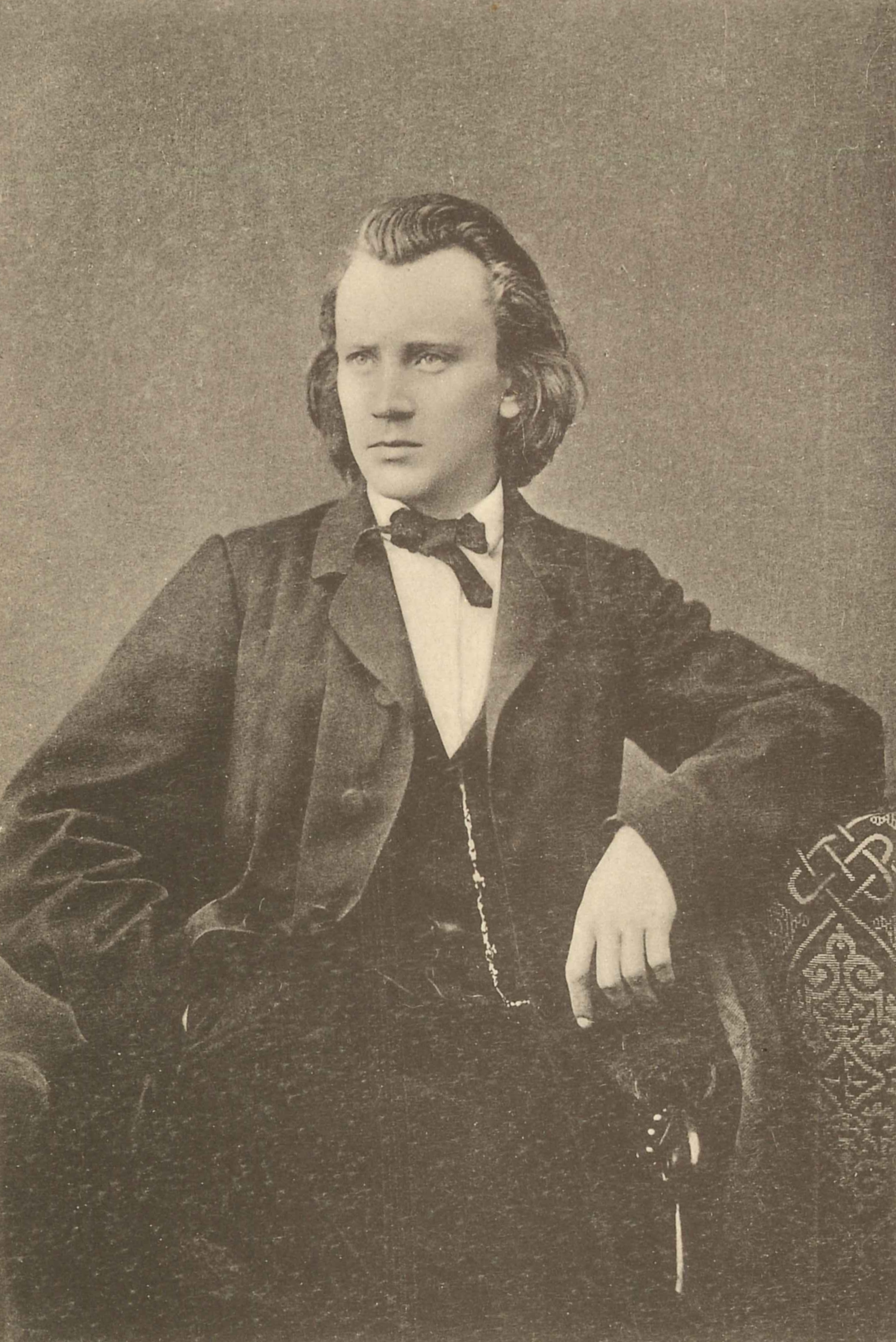 Johannes Brahms